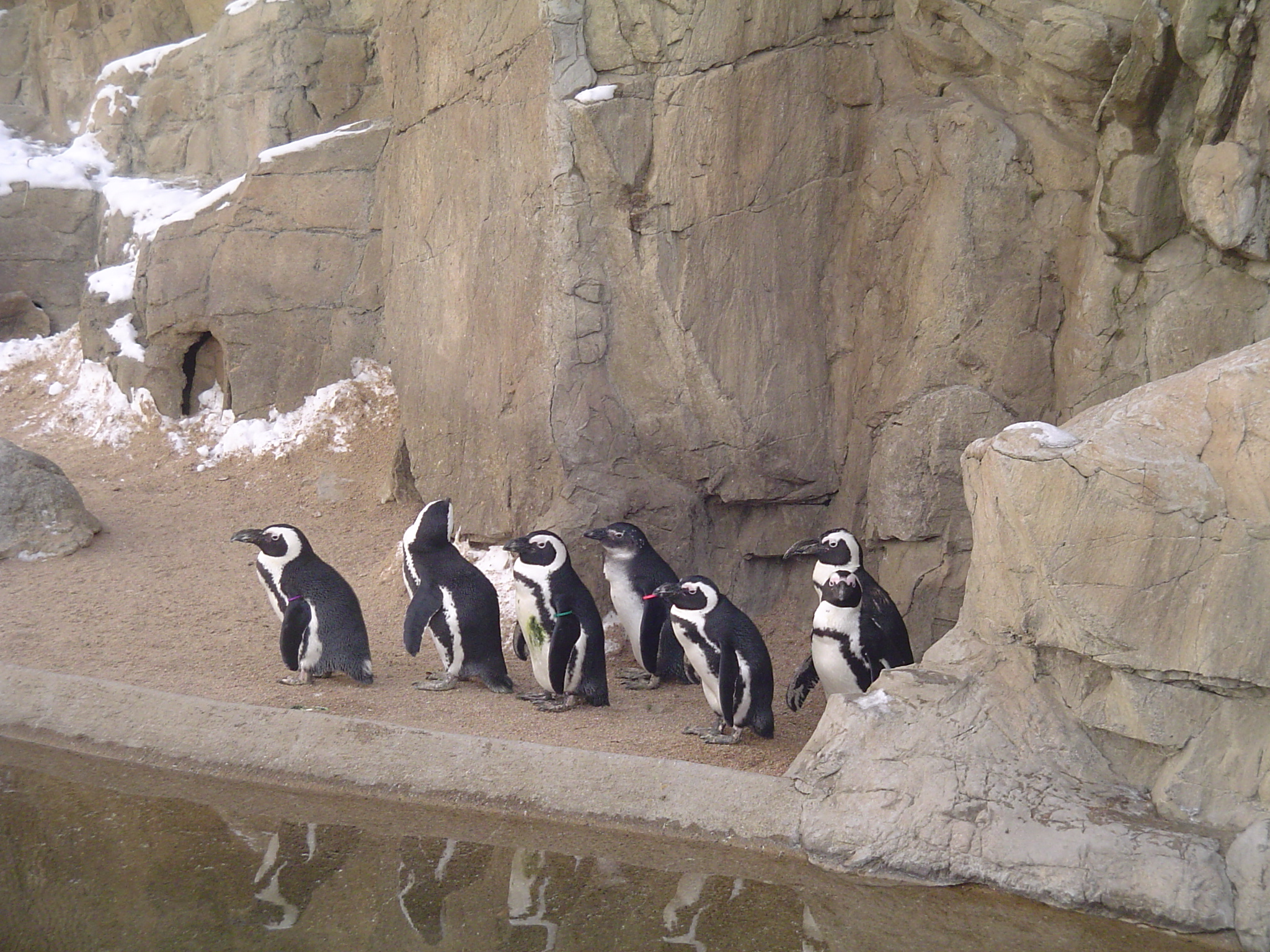 The penguins at the Denver Zoo.